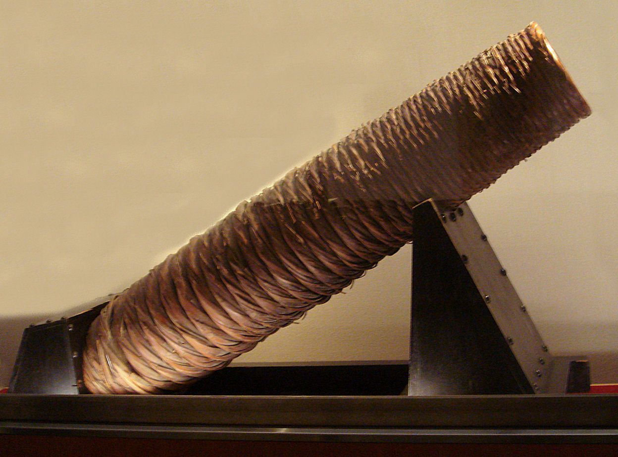 Japanese_coastal_wooden_cannon_1853_1854